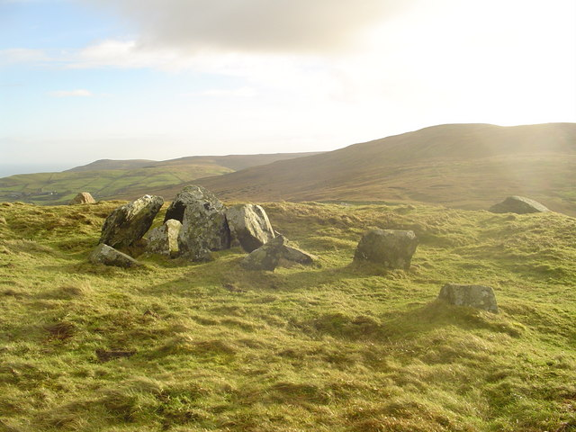 Greenanmore Remains of a Neolithic passage grave, near the old military station overlooking Torr Head.